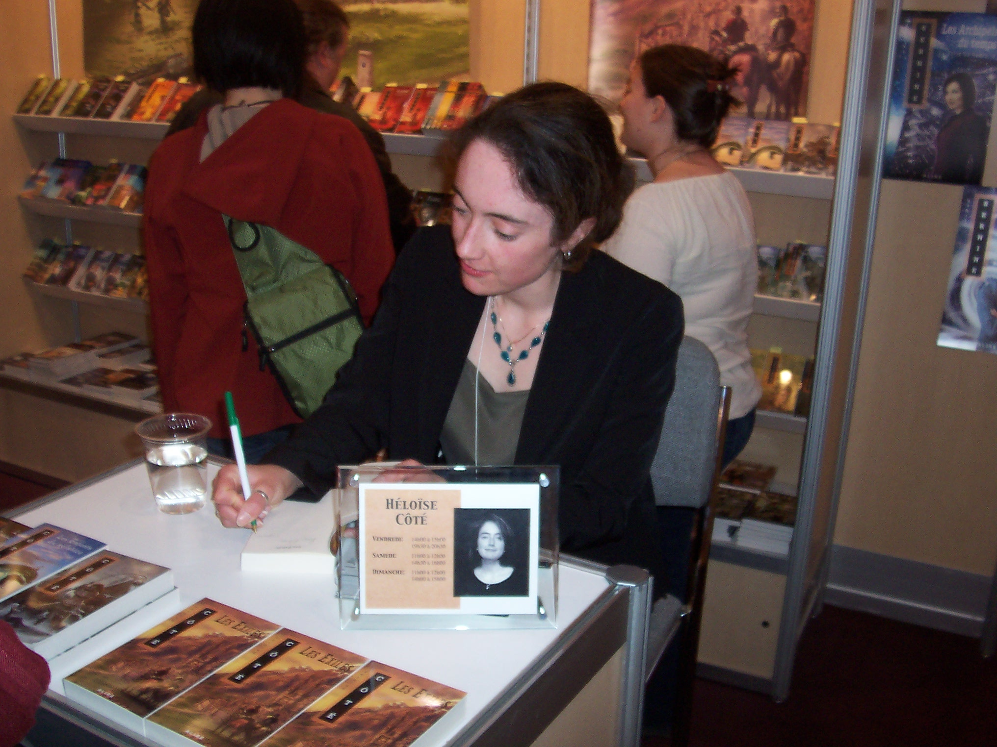 Quebec City Fantasy author Héloïse Côté at the Salon du livre de Québec (Quebec book fair) in 2009.